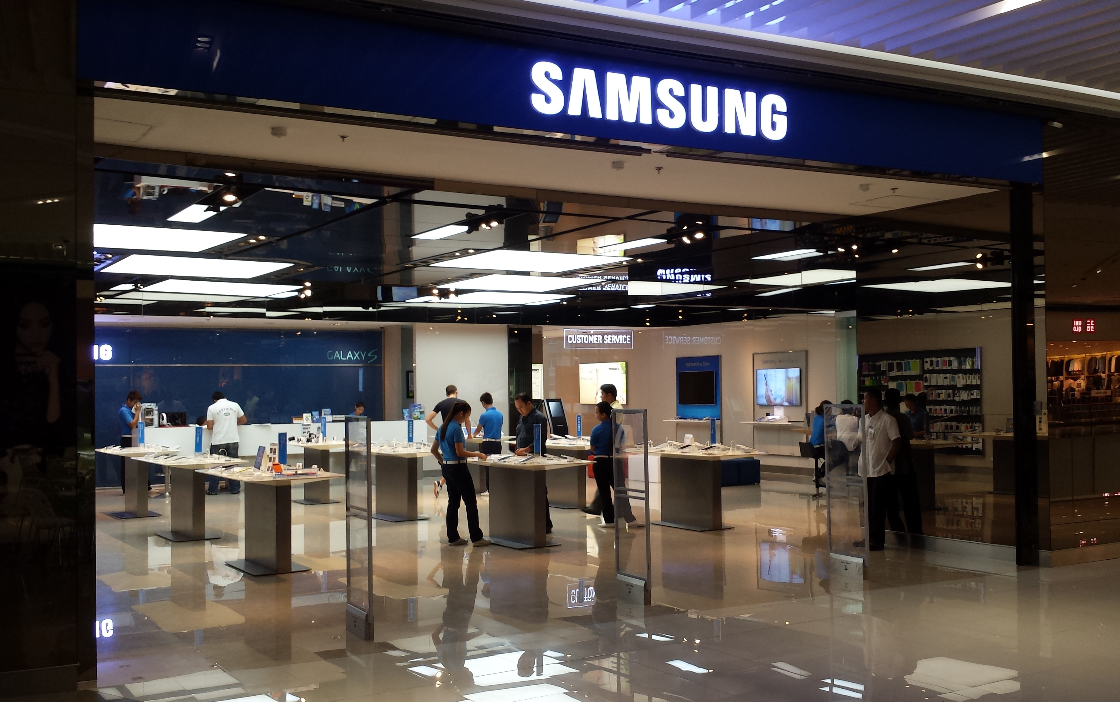 The Samsung store in the shopping mall 'SM Aura Premier' in Bonifacio Global City, Metro Manila, Philippines.